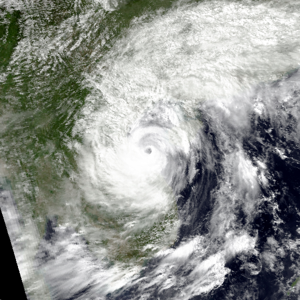 Typhoon Dan on October 13, 1989 with winds of 75 mph and a pressure of 970 mbar.